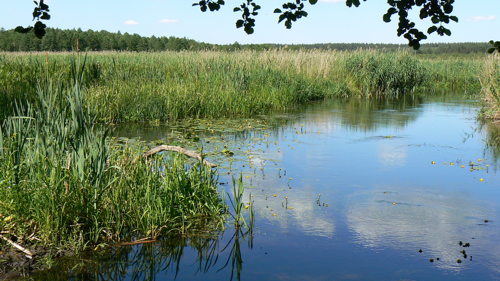 Rospuda valley